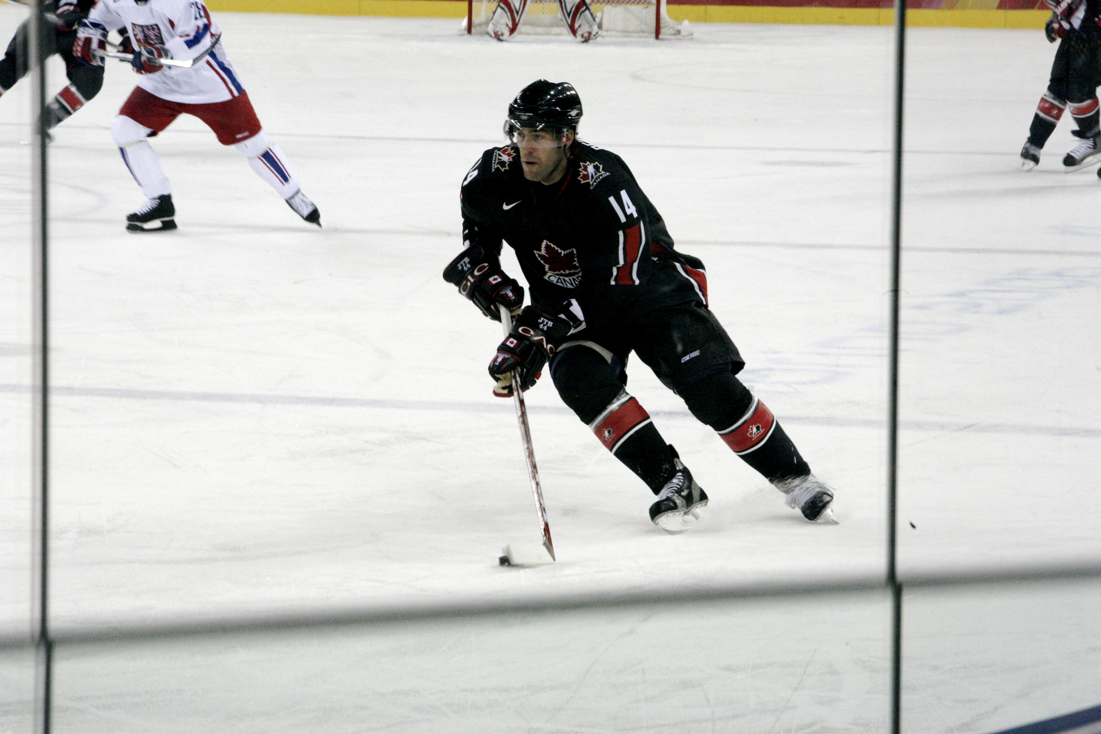 Todd Bertuzzi, Winter Olympics 2006.